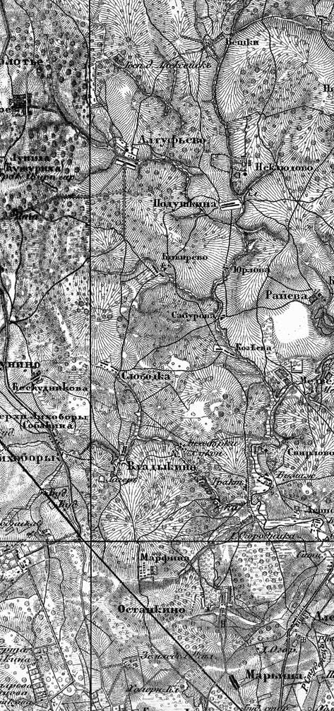 Map of Moscow suburb